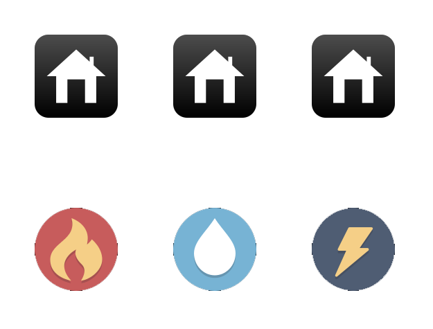 A representation of the three utilities problem. Made from File:Tokyoship Home icon.svg, File:Circle-icons-water.svg, File:Circle-icons-bolt.svg and File:Circle-icons-flame.svg.